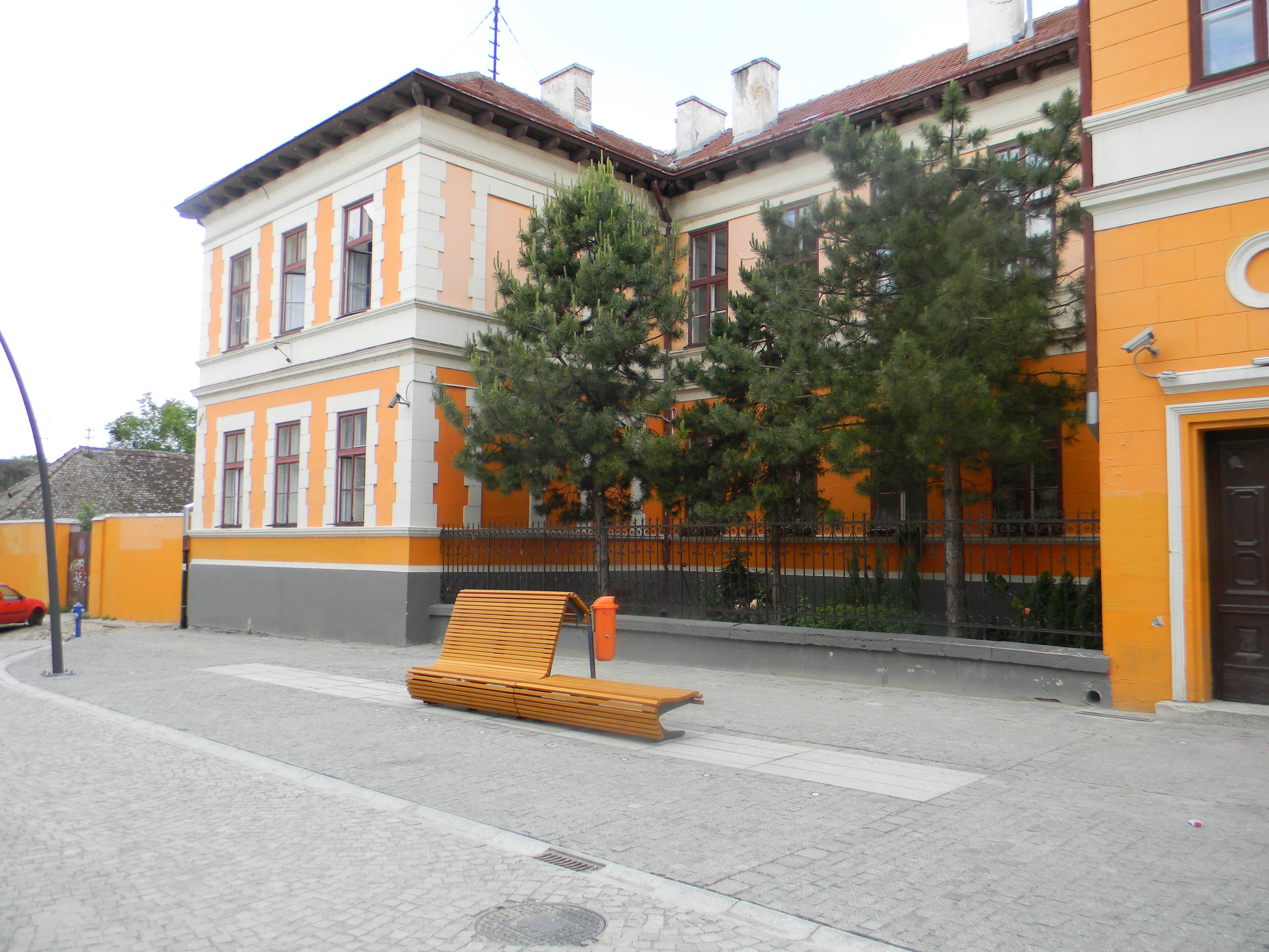 Gimnasium in Pančevo